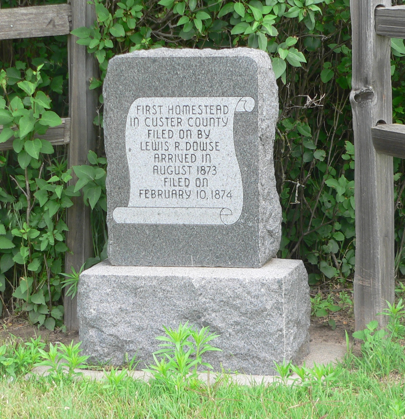 Monument on site of Lewis R. Dowse homestead, on the Middle Loup River south of Comstock in Custer County, Nebraska.